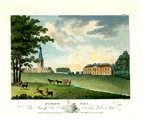 Hand-coloured copper engraving entitled 'Bosworth Hall, the Seat of Sir Wolstan Dixie, Bar.